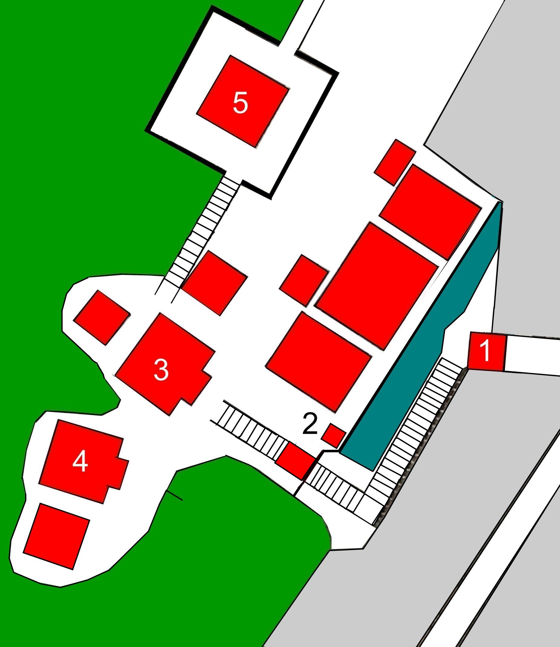 Layout of Yakuô-ji (Tokushima), Japan